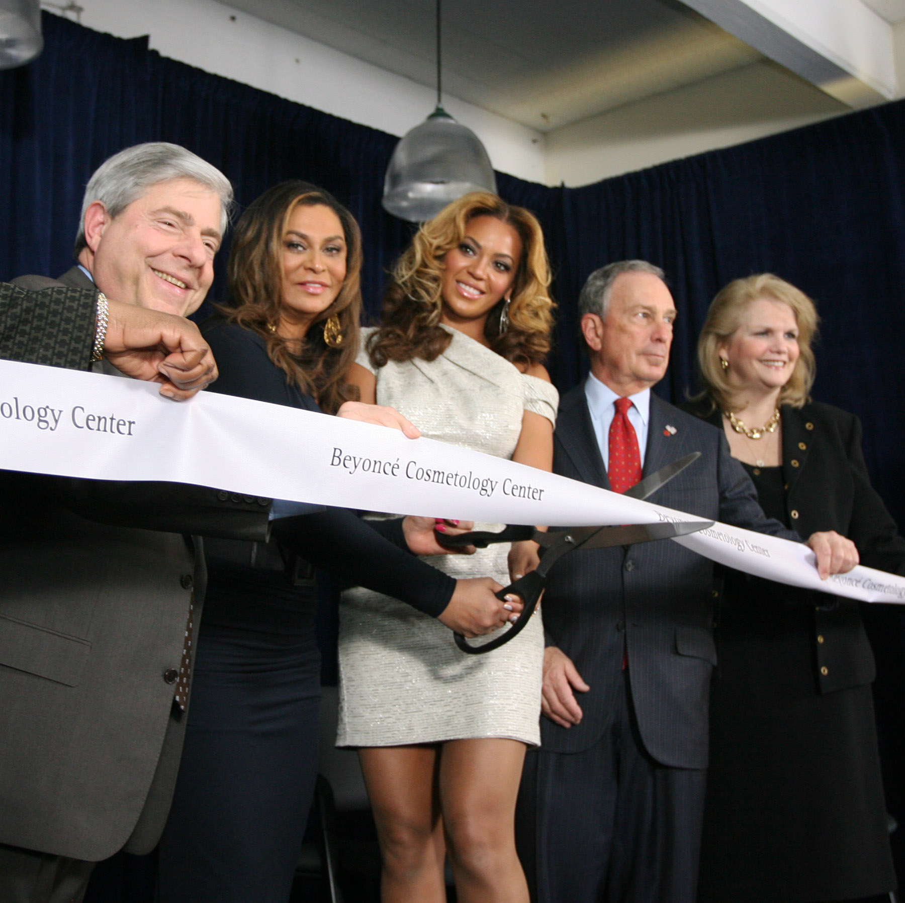 BP Markowitz, Tina Knowles, Beyoncé, Mayor Michael Bloomberg, Karen Carpenter-Palumbo at release Beyoncé Cosmetology Center.